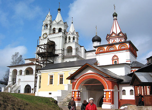 St. Savva Monastery in Zvenigorod (17th century). Photo was taken by Alexander Shipilin and uploaded as GFDL with his permission.